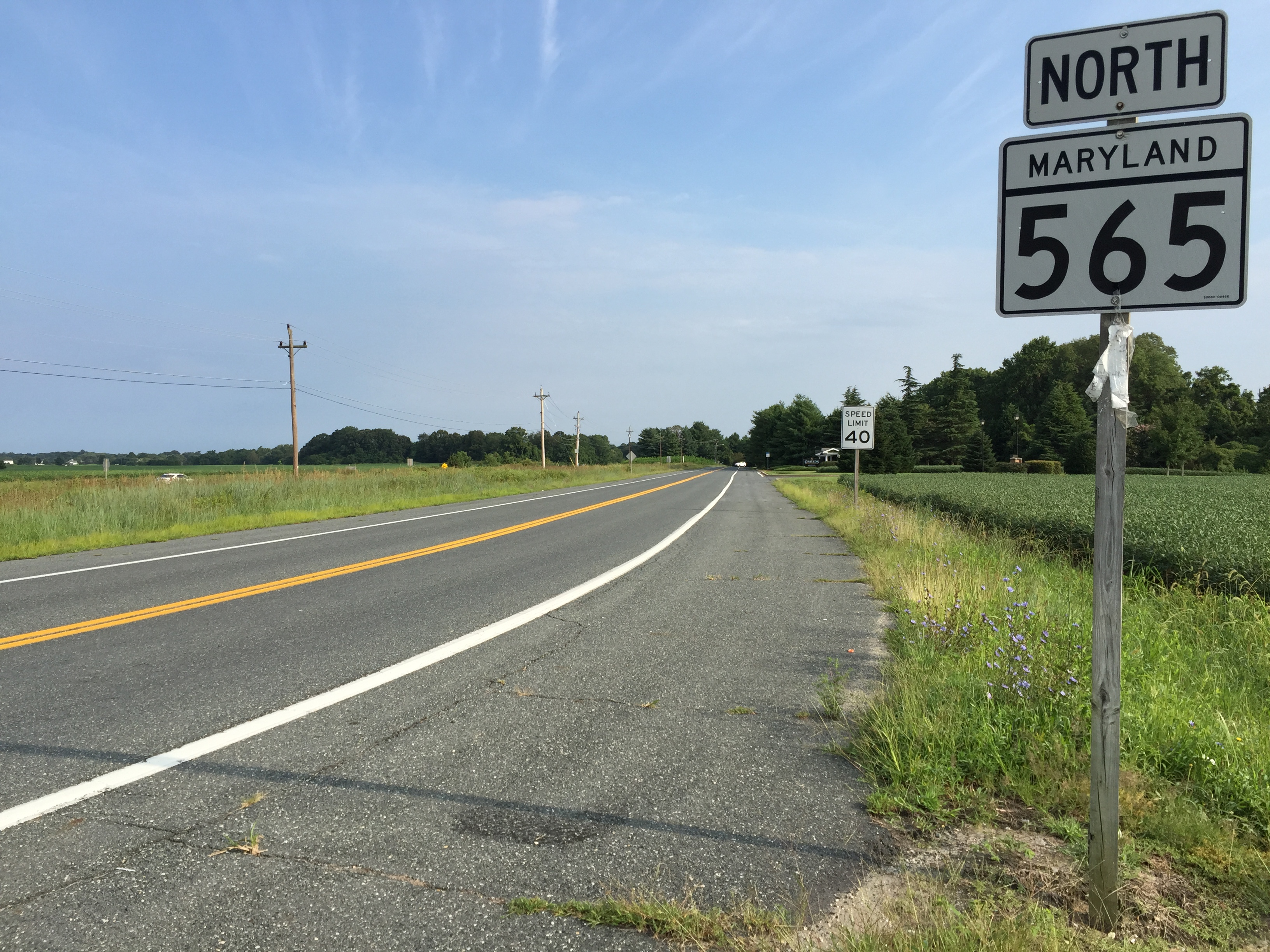 View north along Maryland State Route 565 (Washington Street) at Maryland State Route 322 (Easton Parkway) in Easton, Talbot County, Maryland